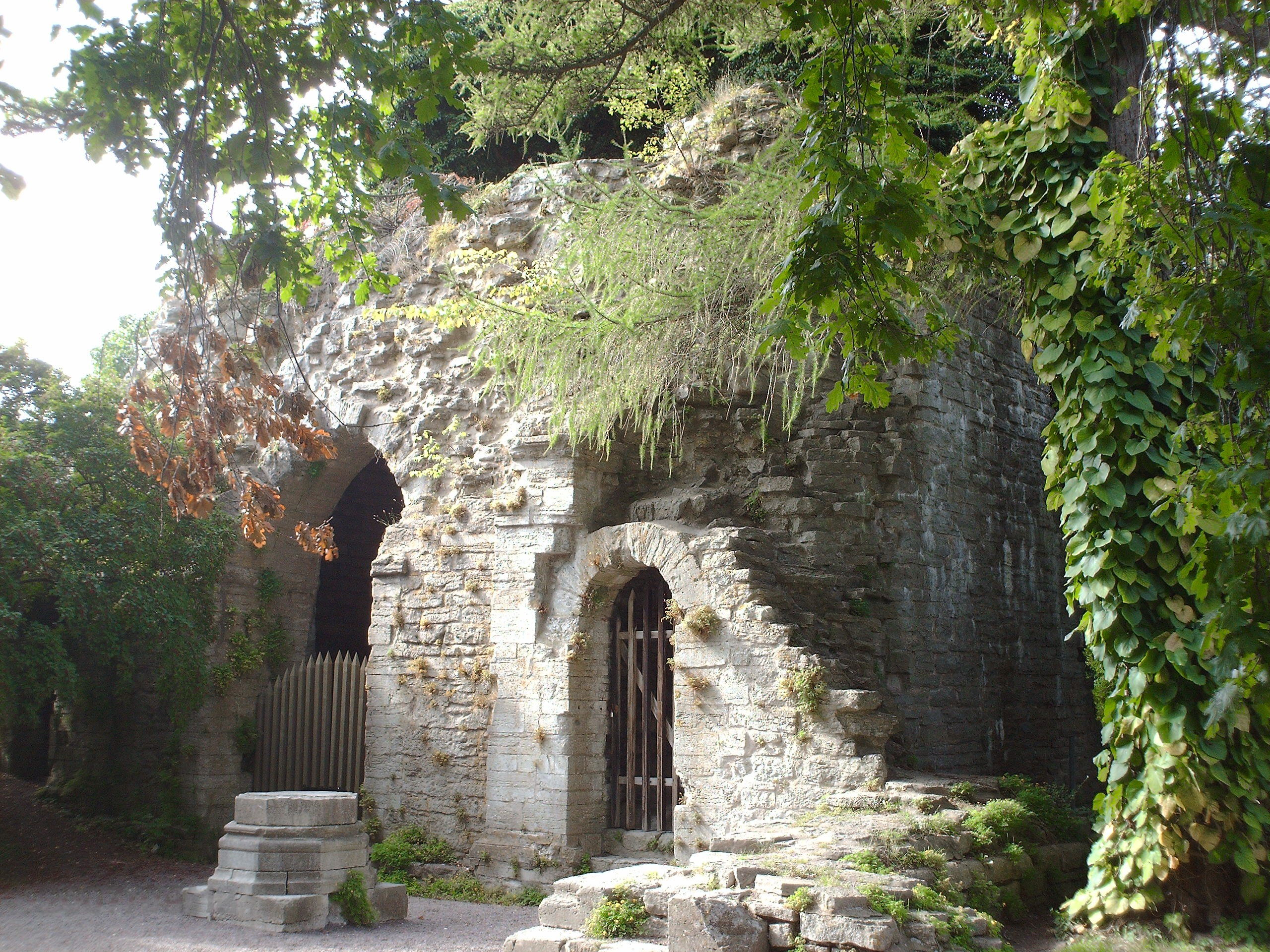 St Olof Church, Visby, Sweden.